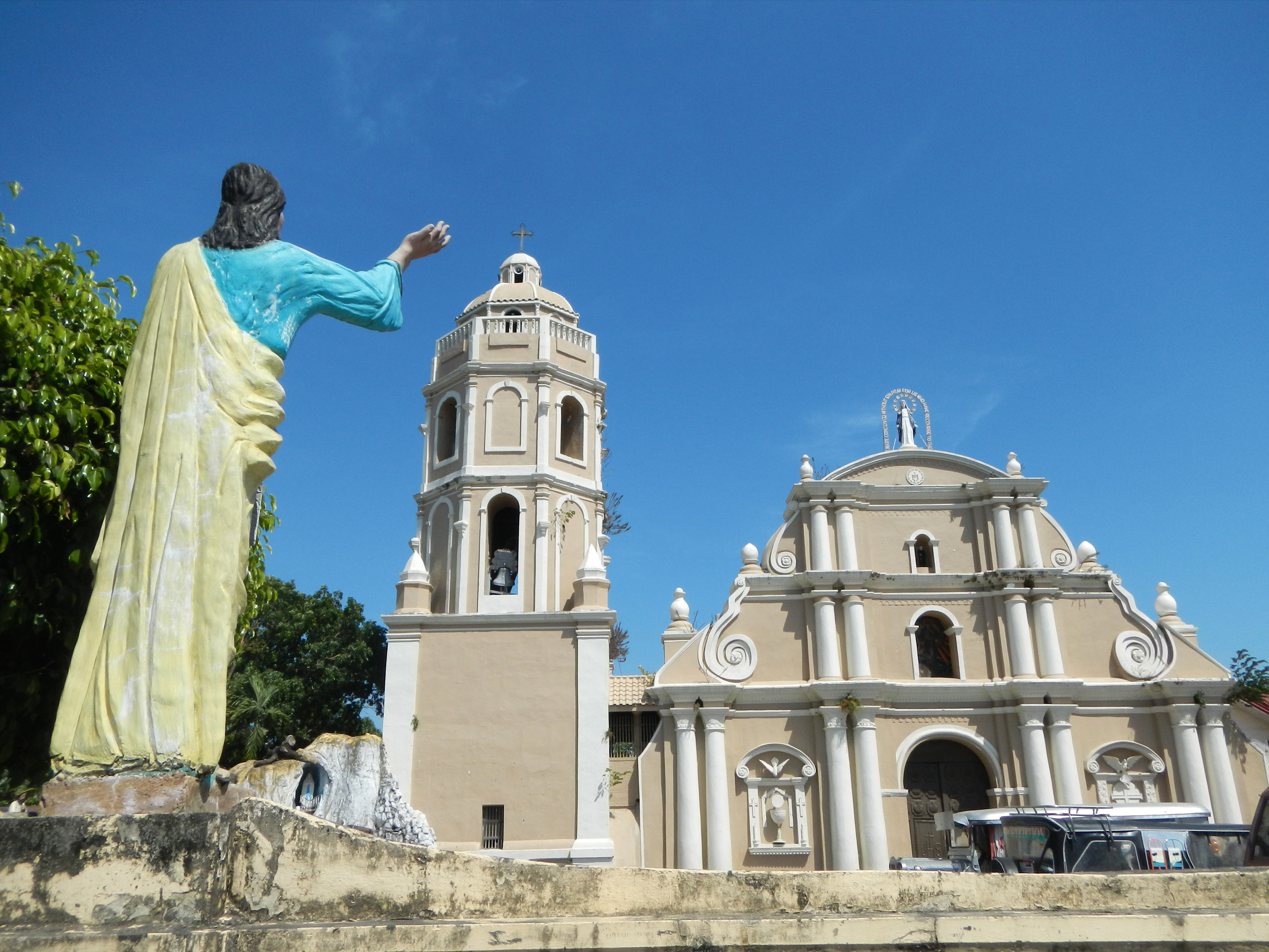 Ilocos Sur province, along the Manila North Road or Pan-Philippine Highway - Saint John of Sahagun Church in Candon, Ilocos Sur and Bell Tower of John of Sahagún, Roman Catholic Archdiocese of Nueva Segovia Vicariate of St. Joseph F-1591 2710 Ilocos Sur, Philippines Titular: St. John of Sahagun, June 12 Parish Priest: Msgr. Vicente B. Avila Parochial Vicar: Father Carlito B. Feria Attached: Father Leobardo Y. Inofinada Chaplain of Hospitals beside the Saint Joseph Institute - a co-ed private school own and administered by the sisters of St. Paul of Chartres and Patio, Park, Cyber Library and Trade Center).